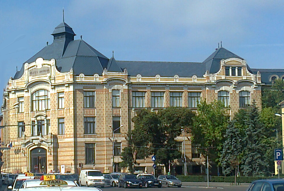 Central University Library in Cluj-Napoca, Romania, built in 1906-1907